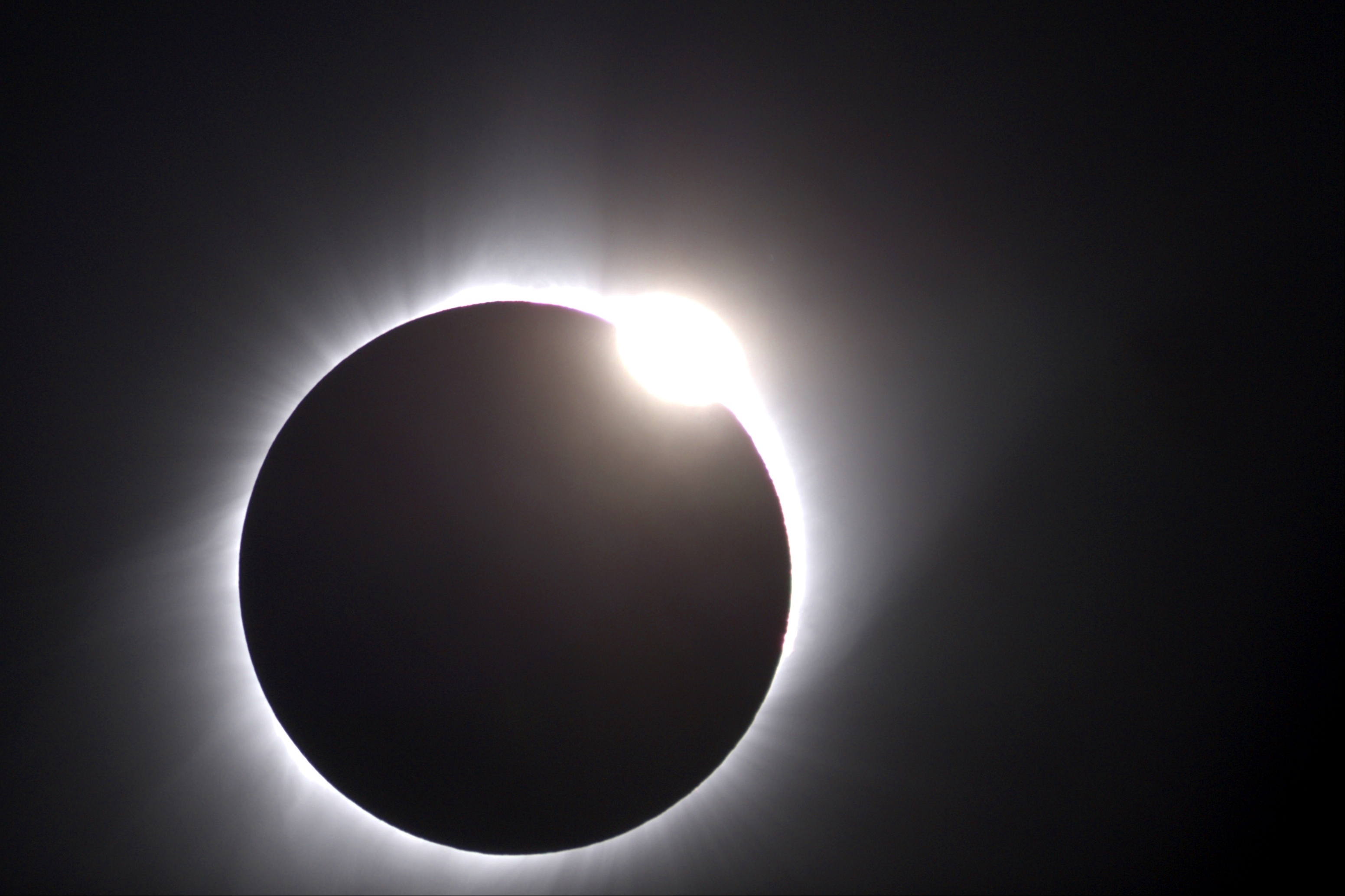 View of the diamond ring effect during the total eclipse of August 21st 2017, seen from Shoshoni, WY. Taken with Canon EOS 6D behind 432mm f/6 apochromat refractor and 2x Barlow lens (1/100s at 1000 ISO).